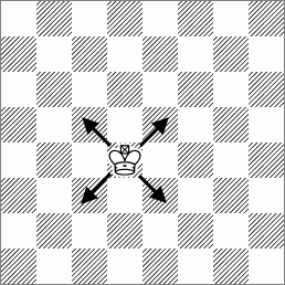 King's star